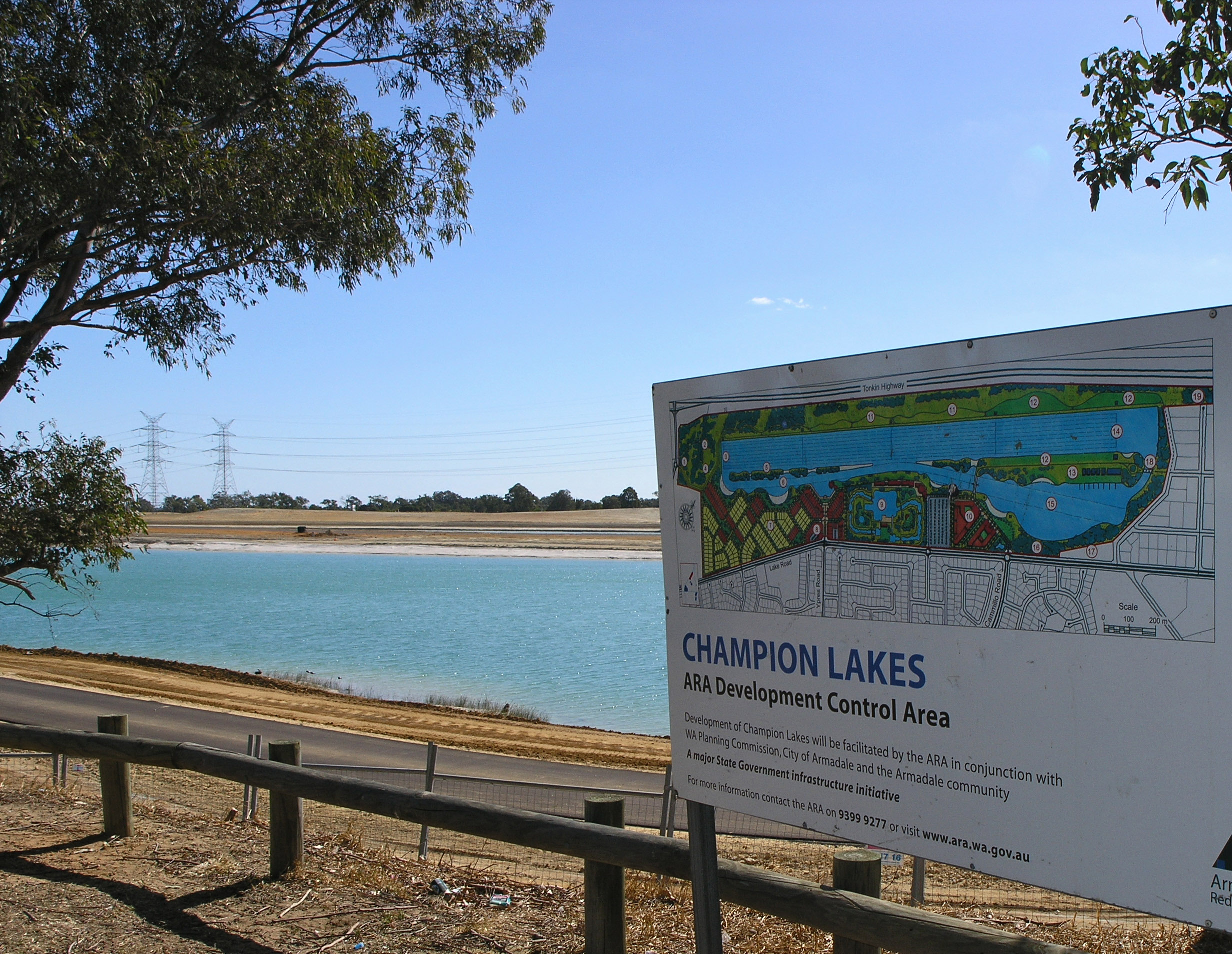 Taken by myself with an Olympus C8080W in March 2007 in Champion Lakes,Perth, Western Australia; before completion of a new water-based recreation facility. Taken & uploaded for Champion Lakes, Western Australia